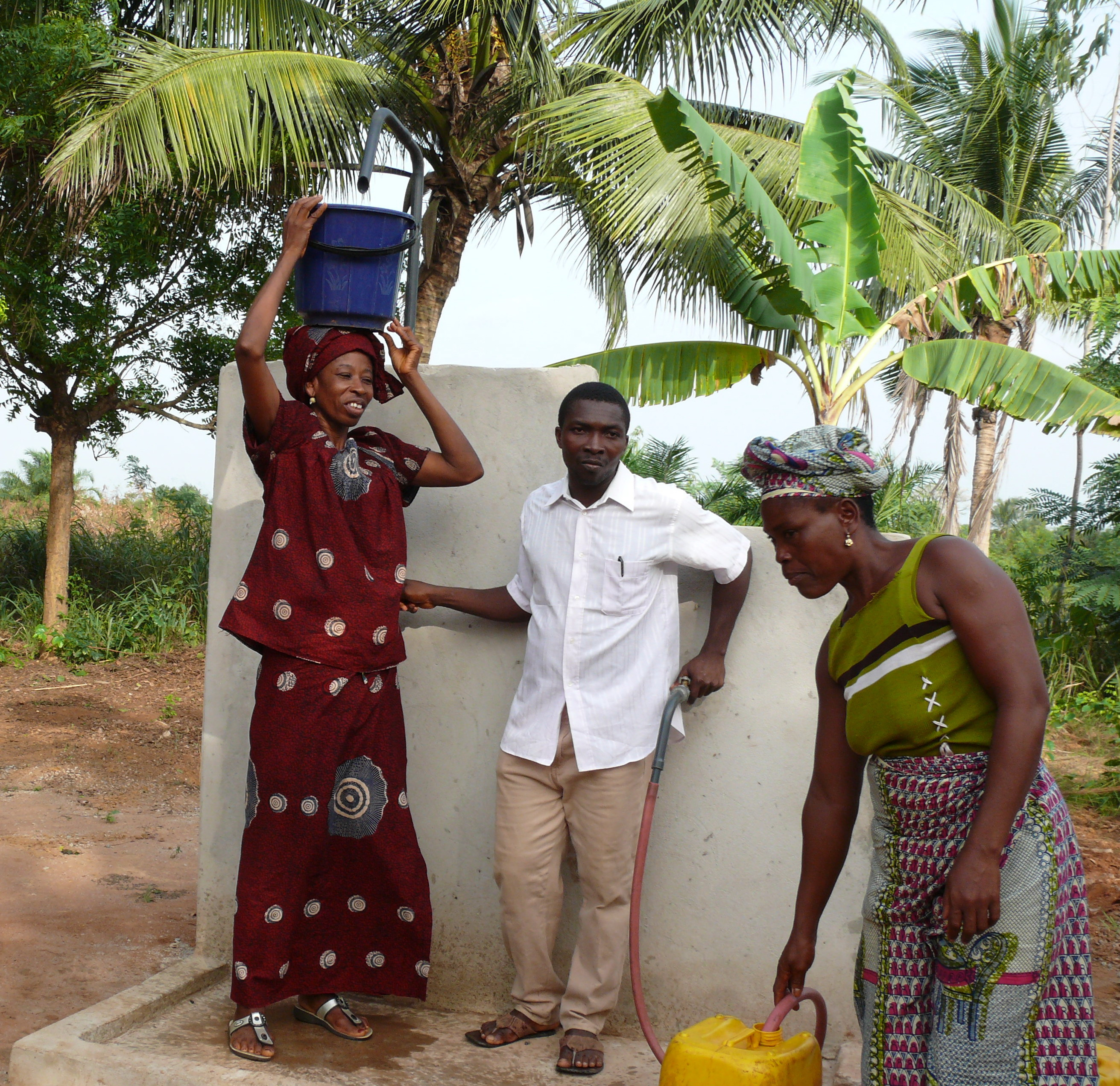 A Well near Kpalimé, Togo, built with donations of Norddeutsche Mission, Bremen